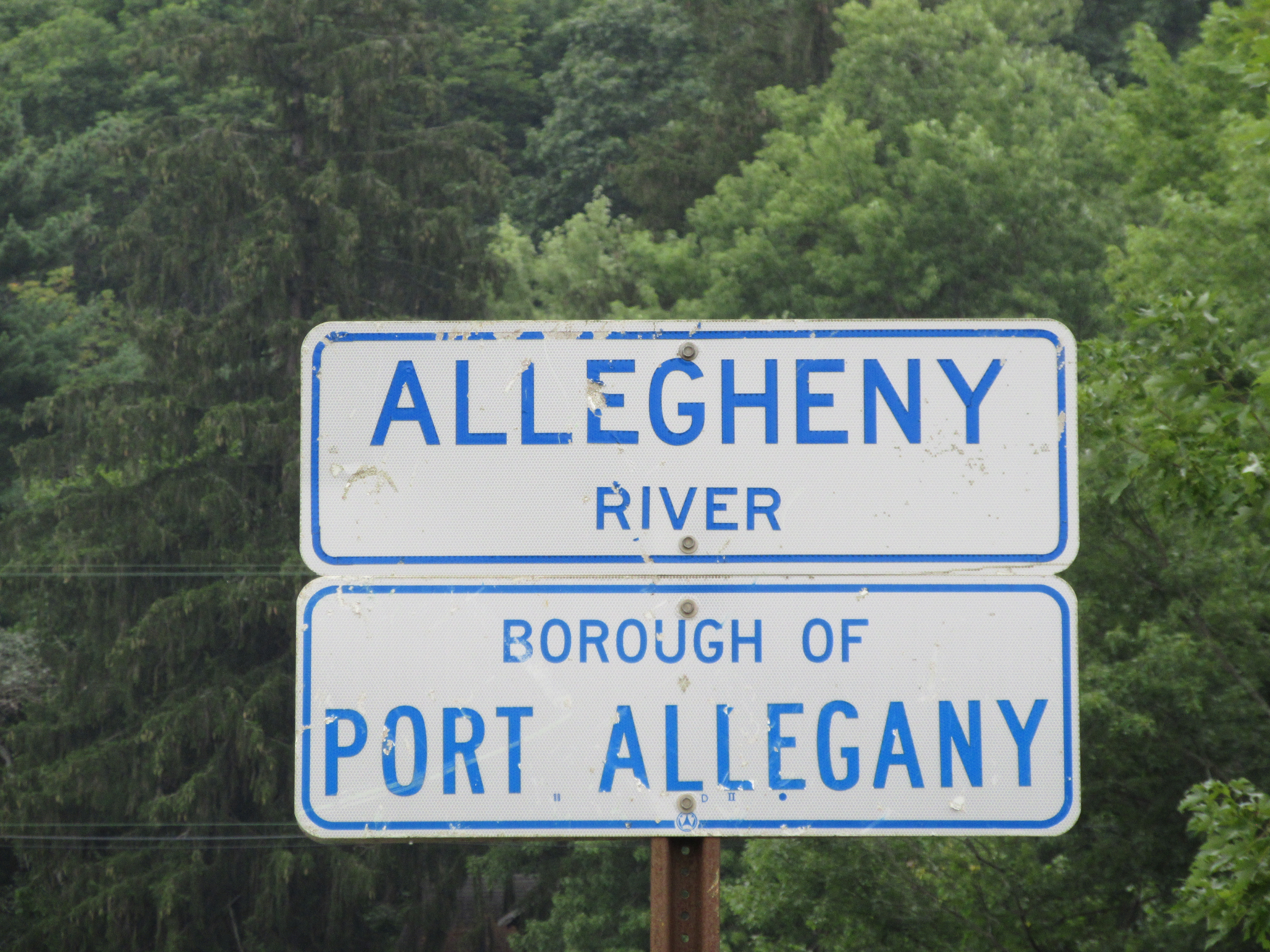 Port Allegany, Pennsylvania